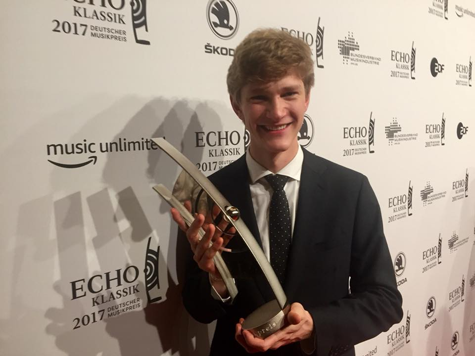 Jan Lisiecki at the 2017 ECHO Klassik Awards ceremony at Elbphilharmonie Hamburg, Germany